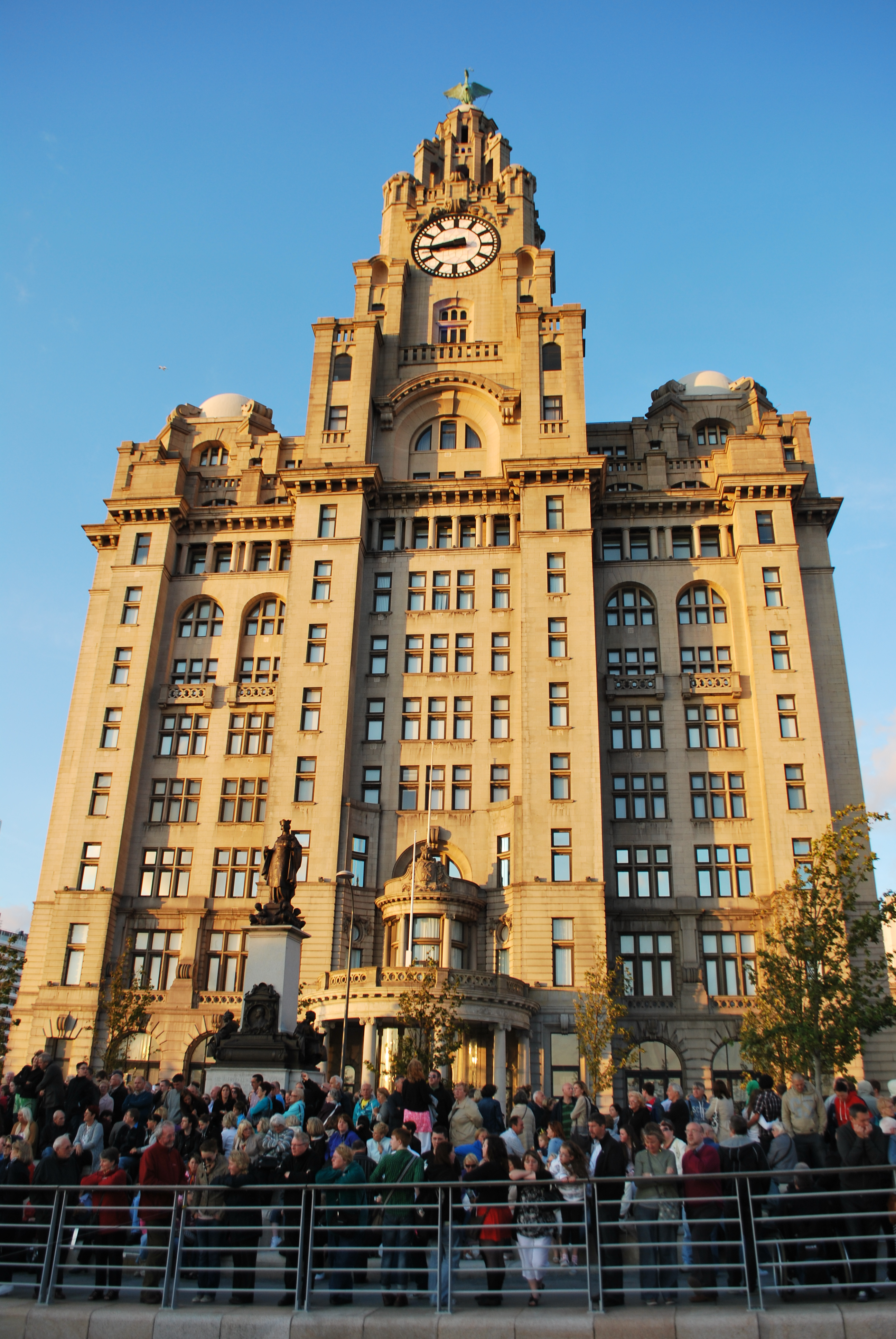 Royal Liver Building celebrating its 100th birthday during the On the Waterfront Event